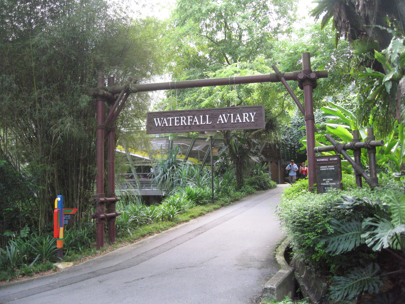 Jurong BirdPark. Taken by Terence Ong in November 2006.